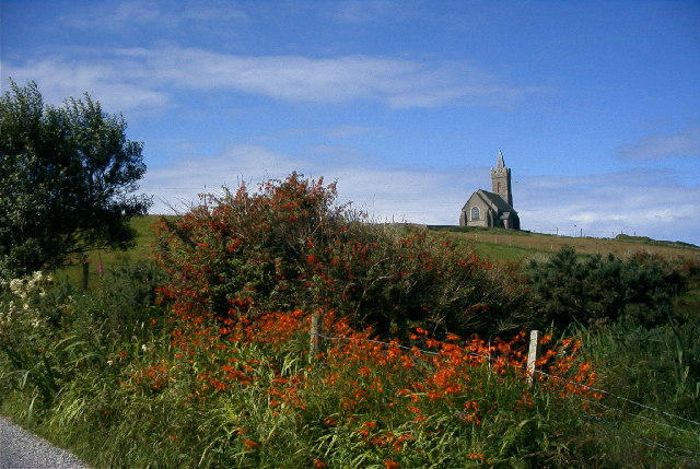 Local flora, Glencolumbcille. Typical flora to be found throughout the glen - the orange montbretia and the red fuchsia. The Church of Ireland church is in the background.